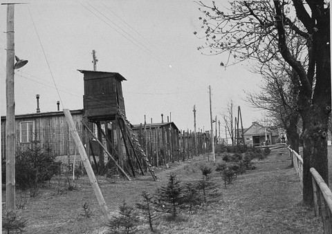 View of a section of the Ohrdruf concentration camp that includes a watchtower, barracks, and barbed wire fencing.